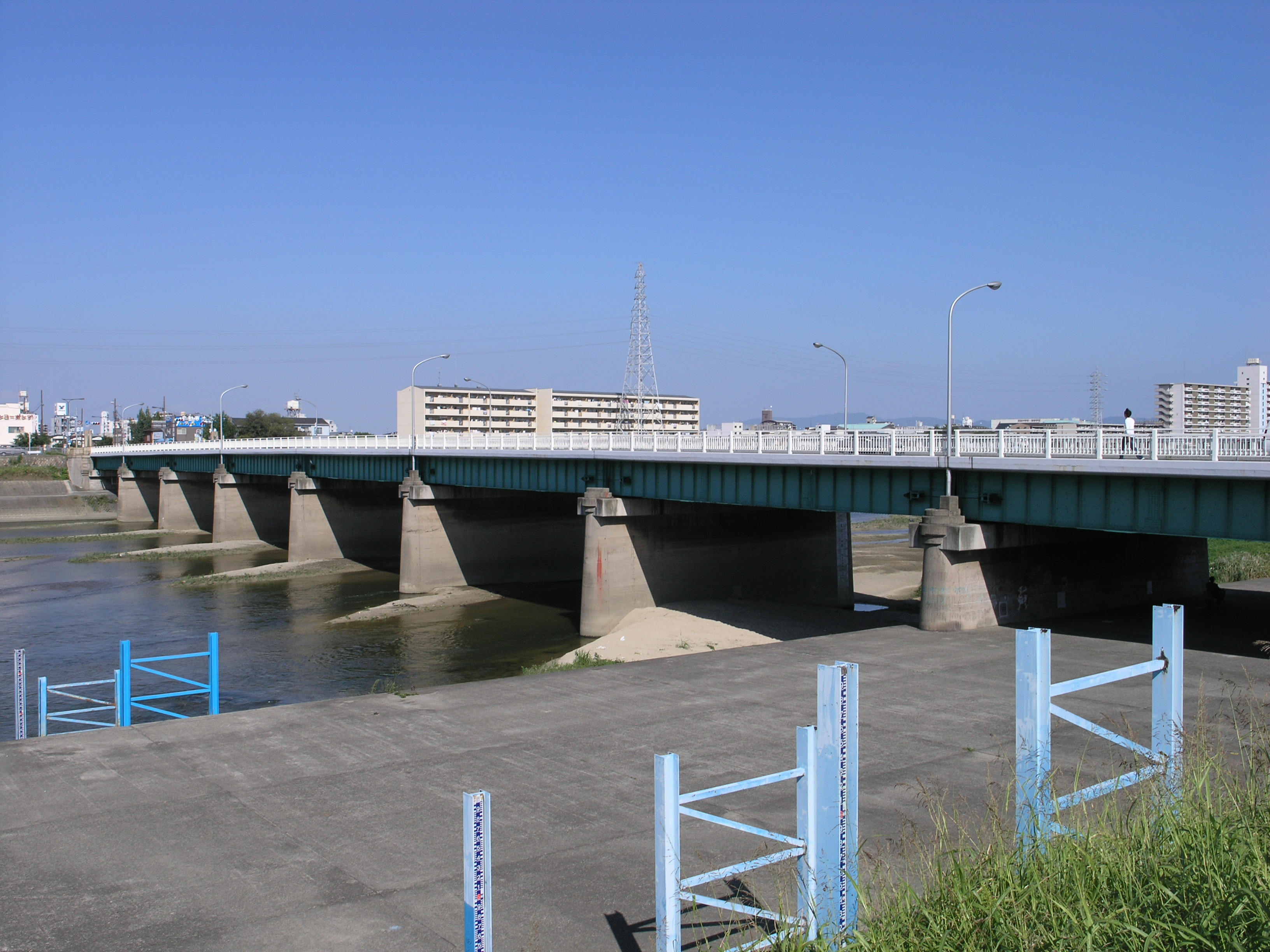 Oriono-bashi (bridge), Sumiyoshi, Osaka